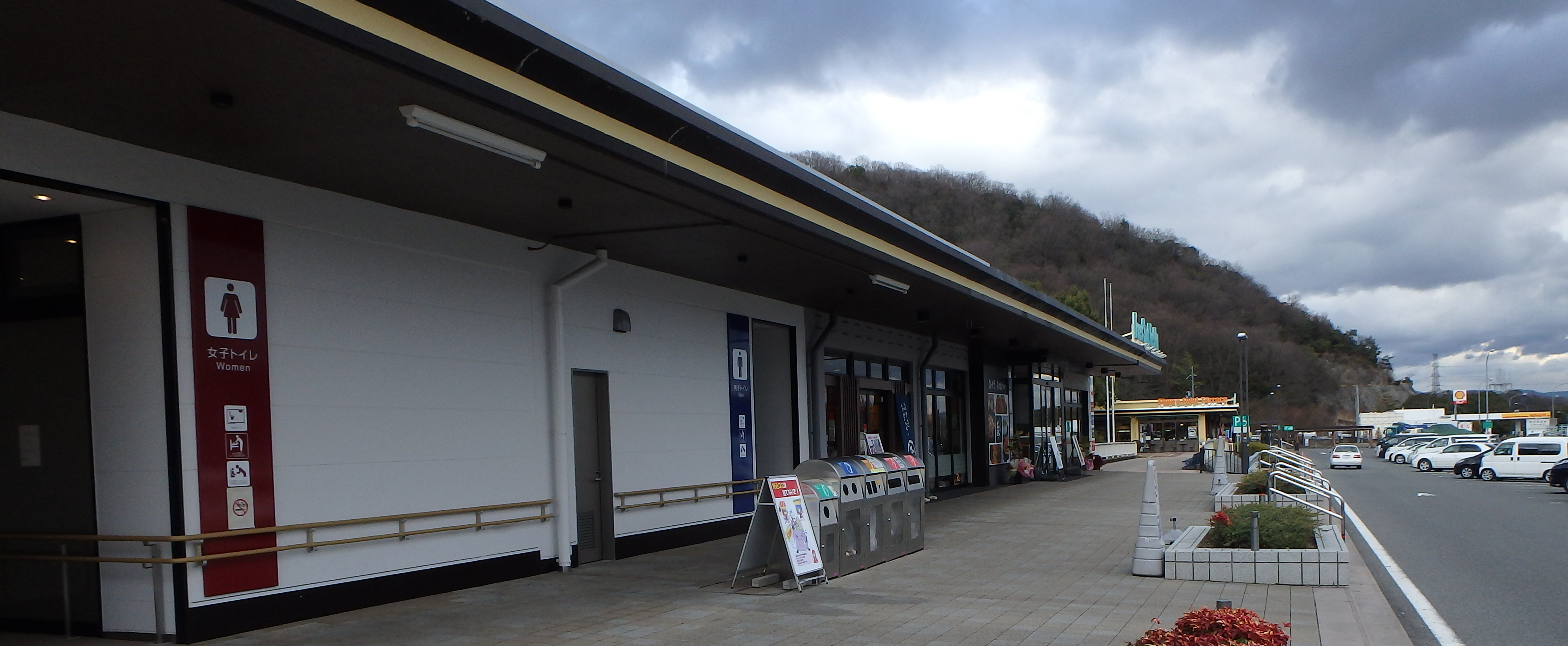 Kashiba Service Area for Nagoya,Nara prefecture,Japan